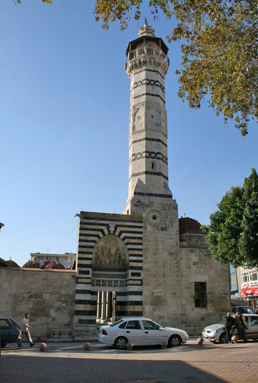 The Grand Mosque of Adana